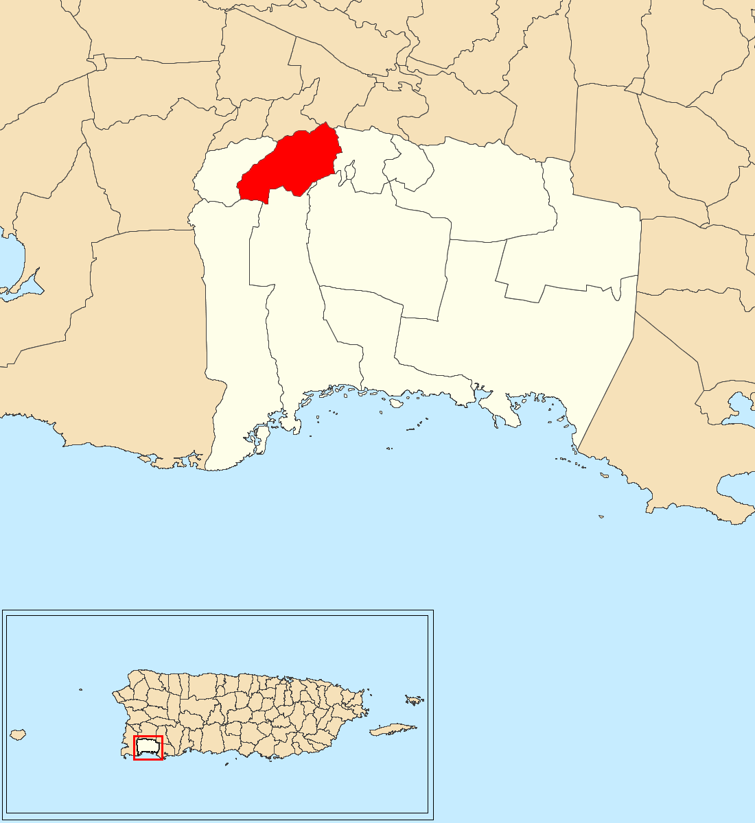 Candelaria, Lajas, Puerto Rico locator map